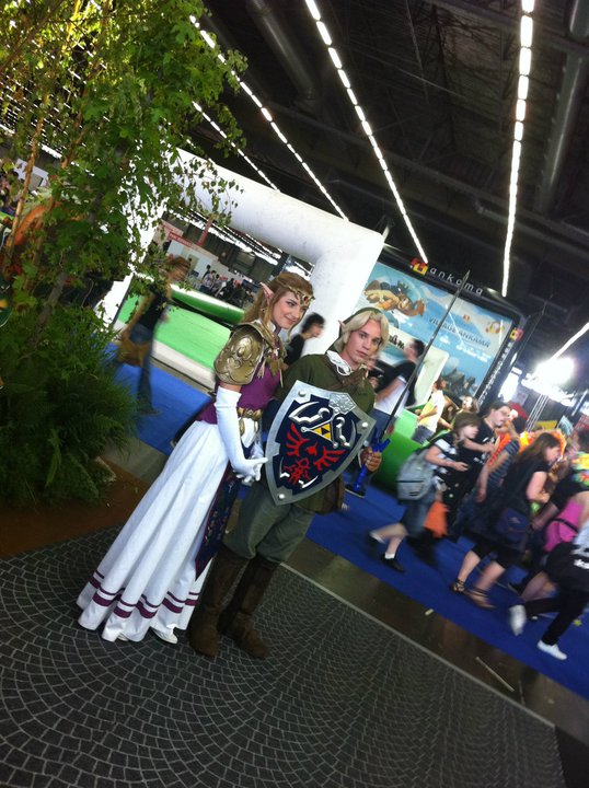 Cosplay of Link and Zelda in the 2011 Japan Expo